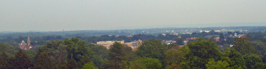 Photographed by Daniel Case 2005-07-26 from Prospect Hill Cemetery.